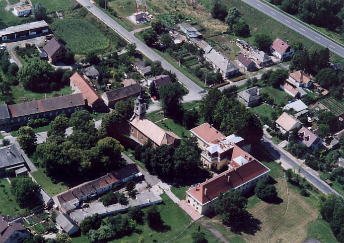 Palace - Szentlőrinc - Hungary - Europe